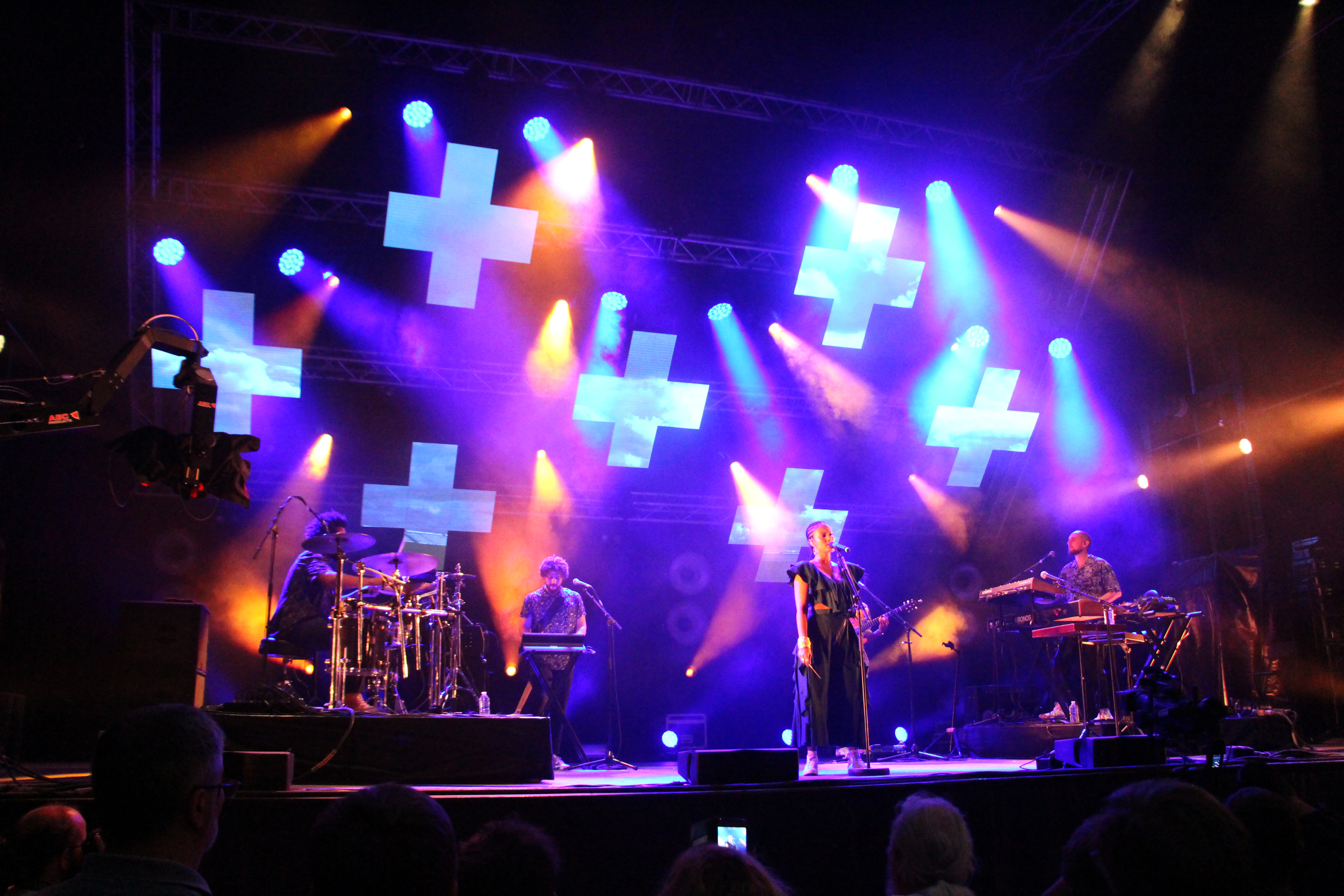 Singer Mayra Andrade and her musicians at the Cabaret Frappé festival in Grenoble, 18 July 2019.